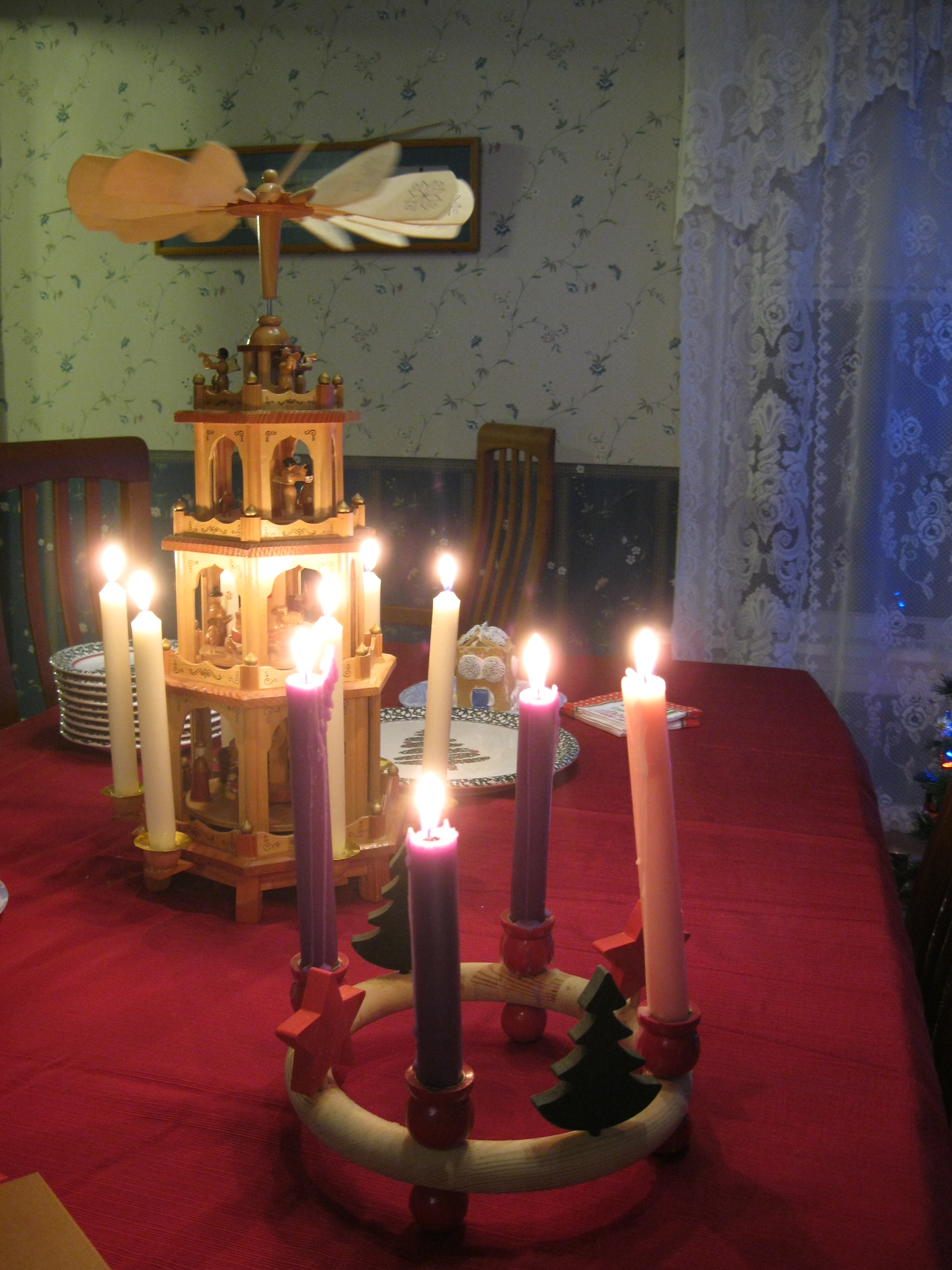 An Advent wreath (foreground) and Christmas pyramid